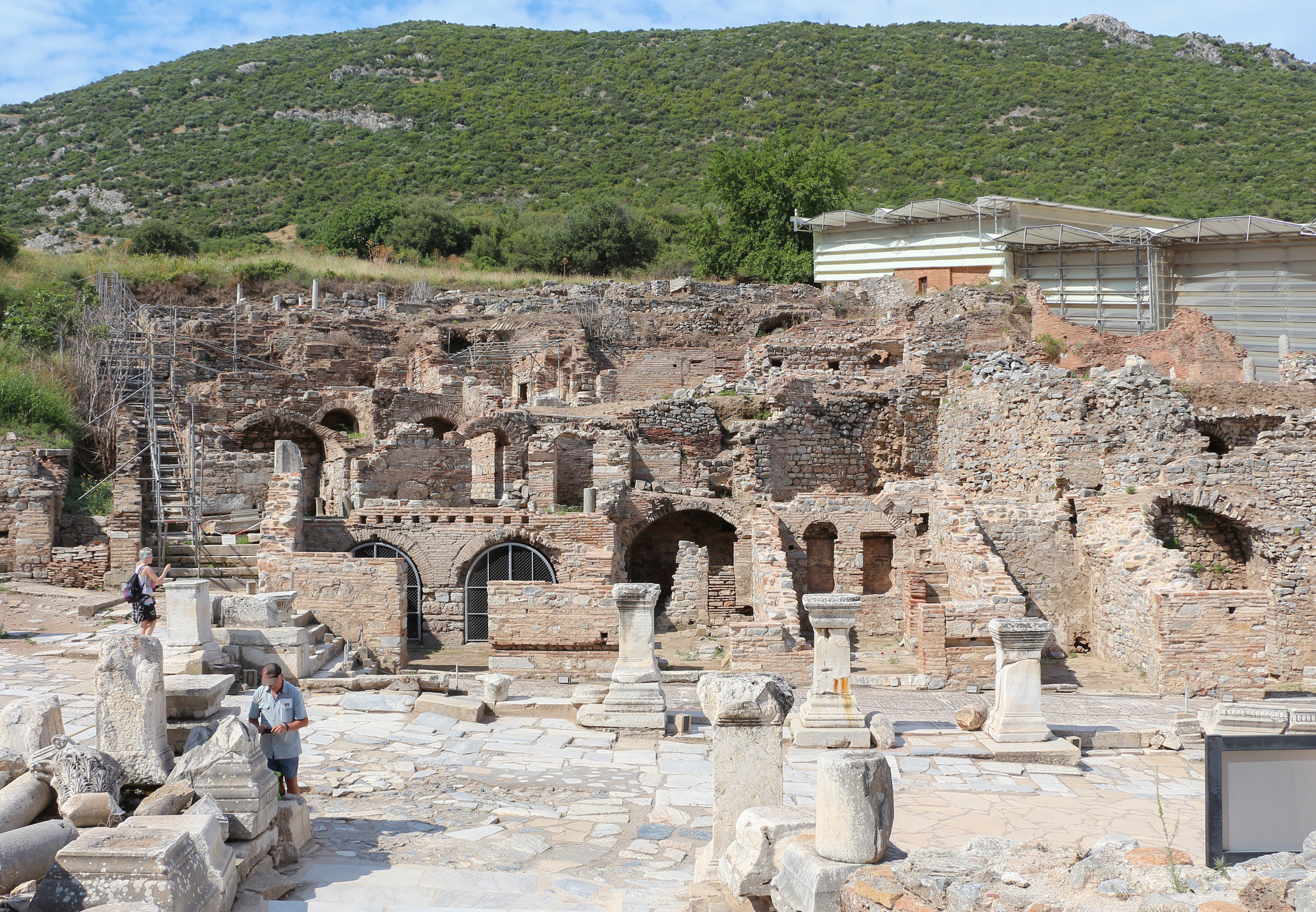 Terrace Houses in Ephesus, Turkey